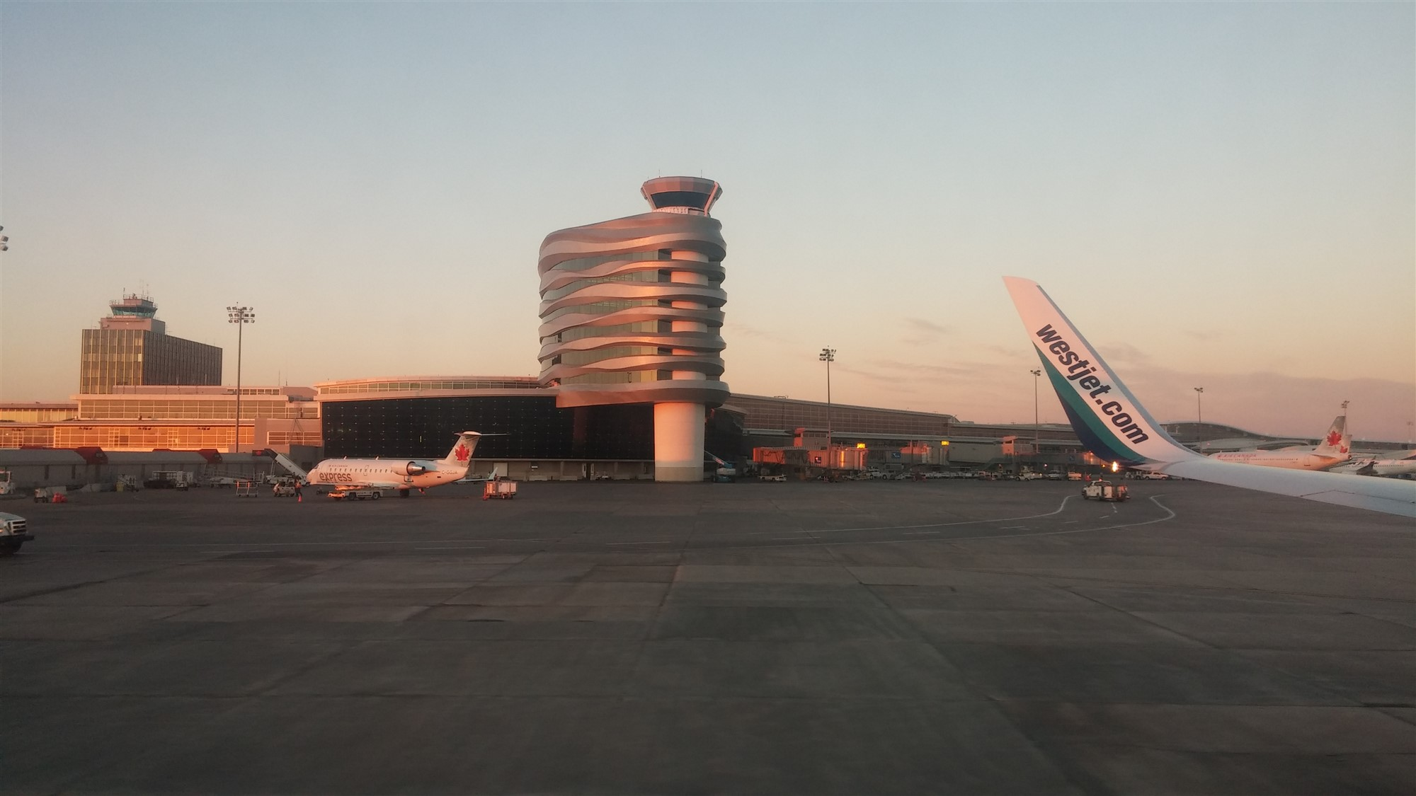 Edmonton International Airport control tower, Alberta, Canada